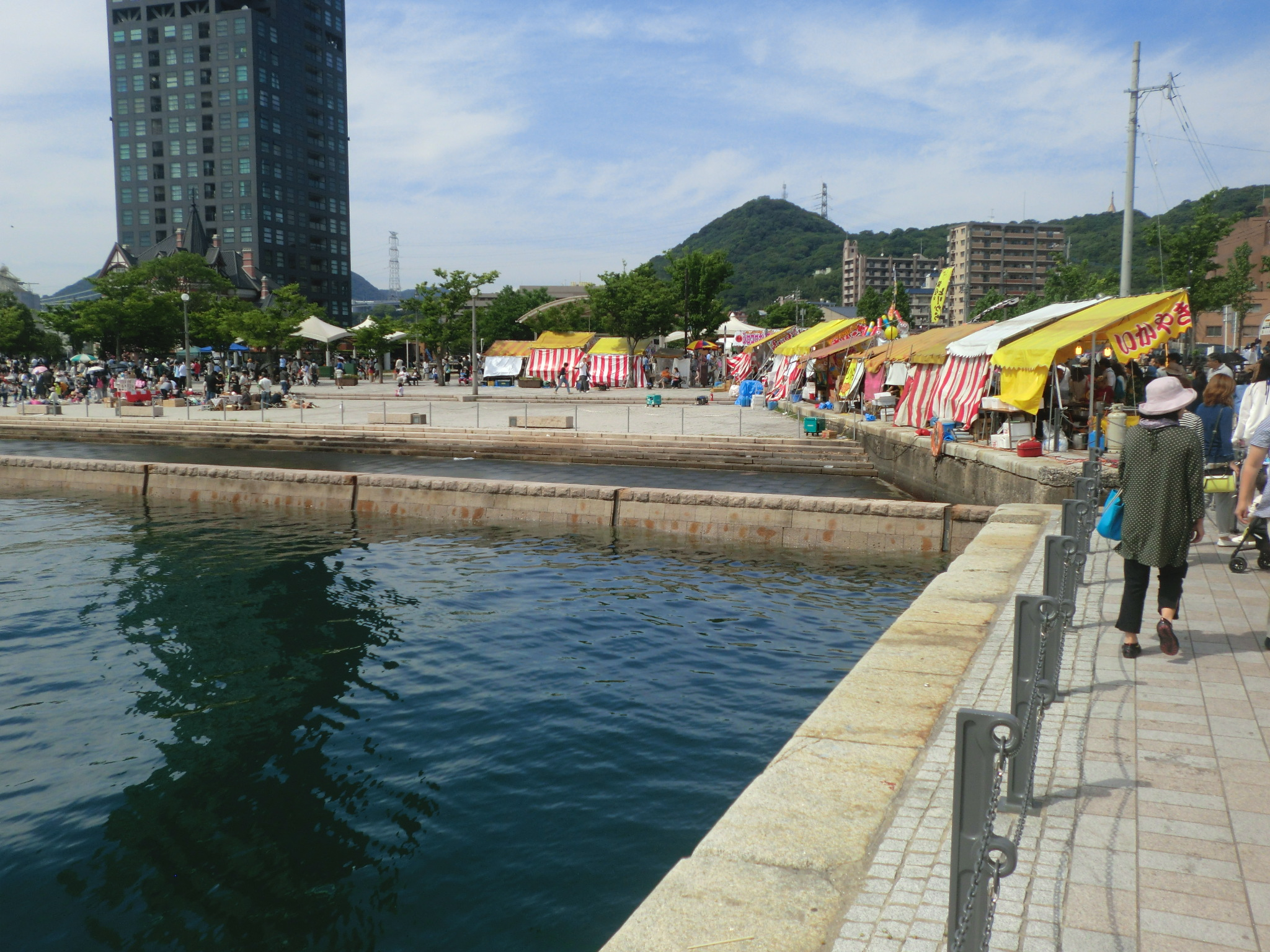 Roten shops at Moji Minato Matsuri festival.